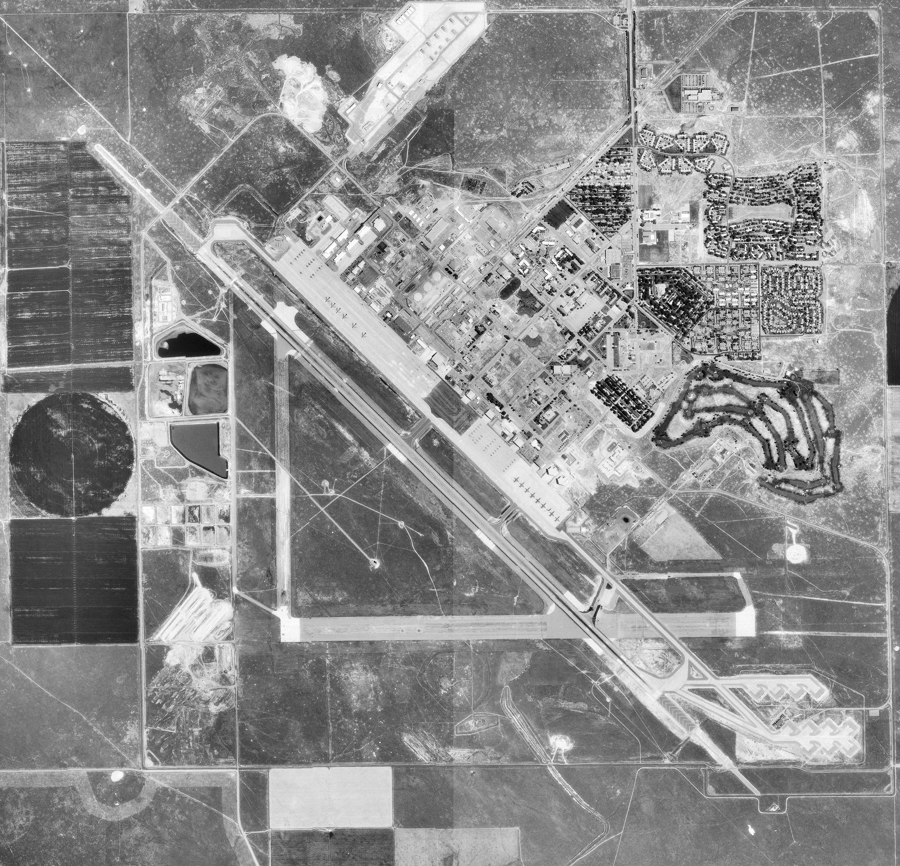 USGS orthophoto of Mountain Home Air Force Base in Mountain Home, Idaho, United States.